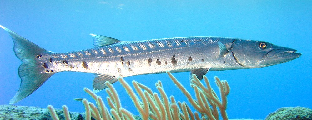 Remove "cropped" from file name and see original file